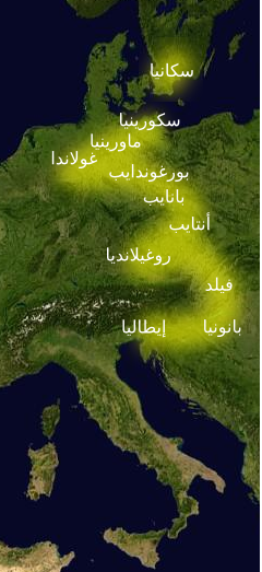 Migration of Lombards from Scania to Italy, I century BC- VI century AD. According to Lidia Capo (ed.) Paulus Diaconus' Historia Langobardorum, Mondadori 1992, map 1.